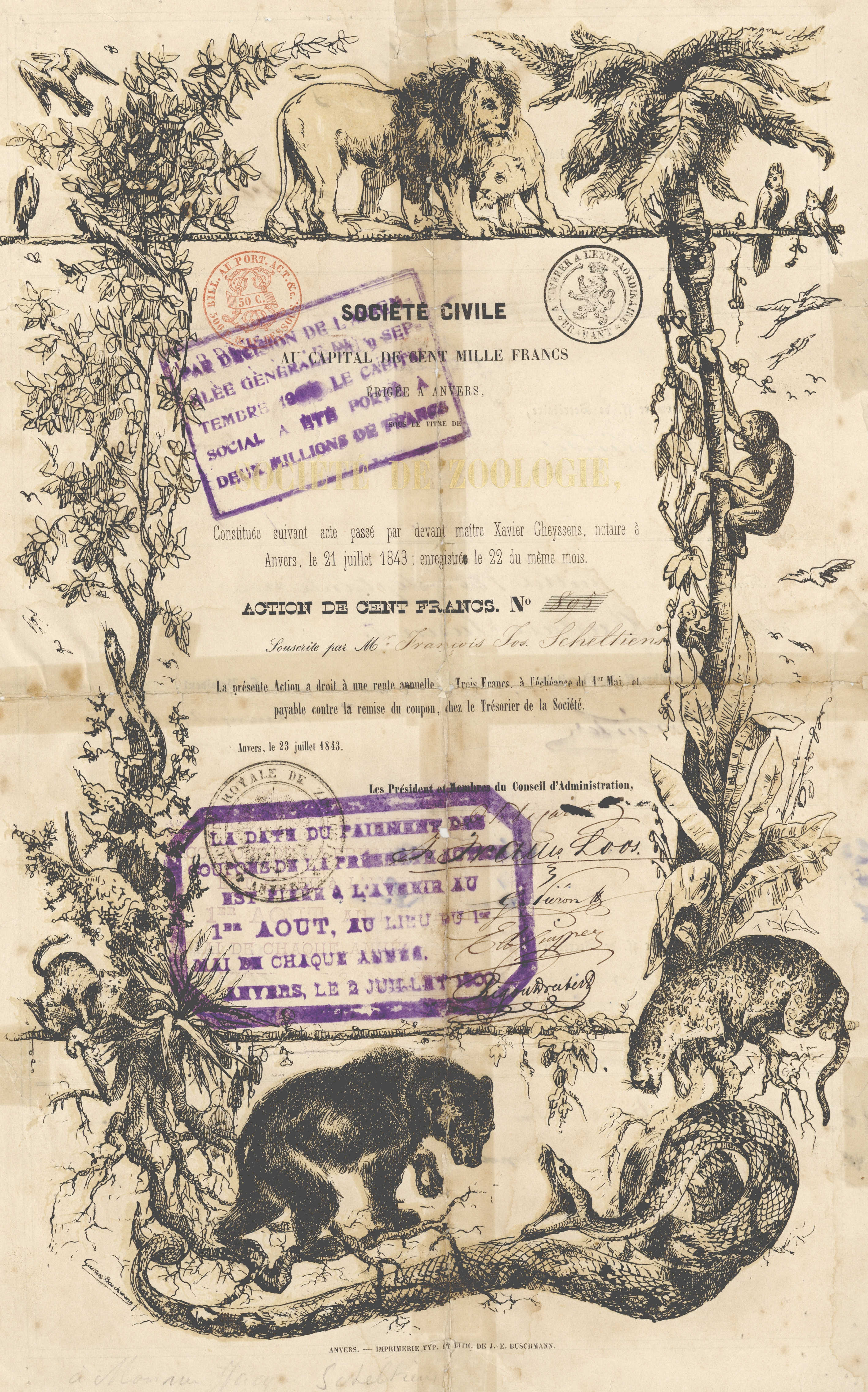 Share of the Societé de Zoologie, issued 23. July 1843